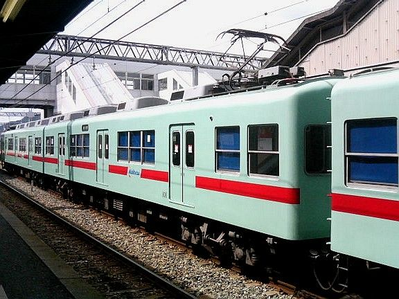 Nishi Nippon Railroad 600 series EMU (631) at Nishitetsu Tenjin Omuta Line Nishitetsu-Futsukaichi Station in Chikushino, Fukuoka, Japan